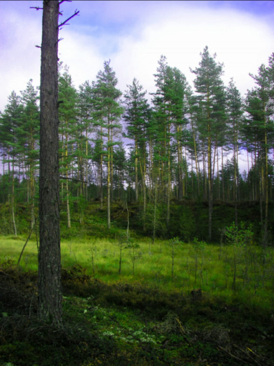 In the forest of Store Mosse